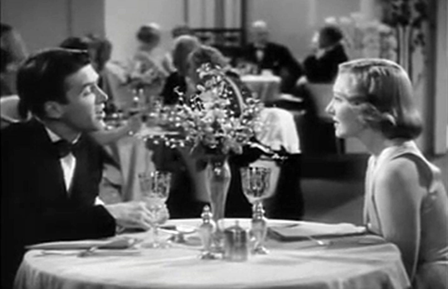 Screenshot of James Stewart and Jean Arthur from the trailer for the film You Can't Take It with You